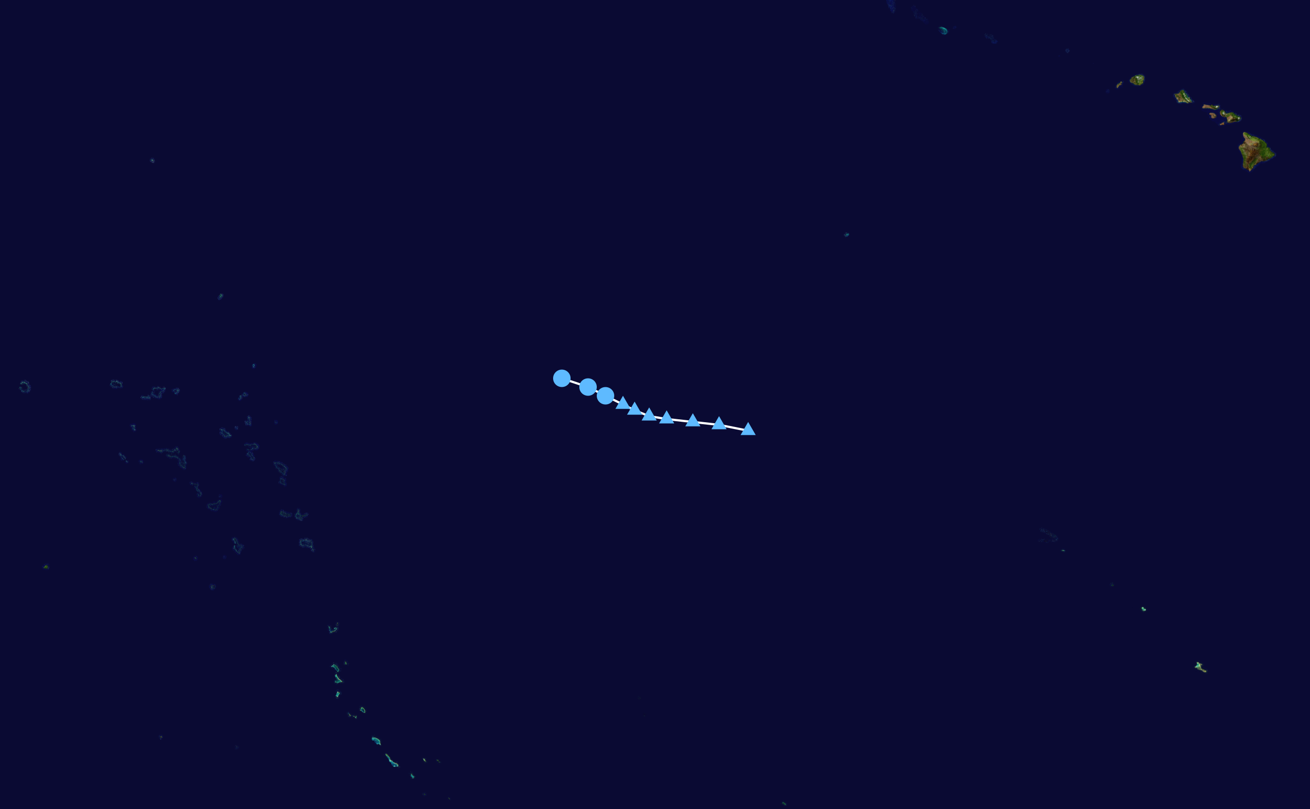 Track map of Tropical Depression Three-C of the 2006 Pacific hurricane season. The points show the location of the storm at 6-hour intervals. The colour represents the storm's maximum sustained wind speeds as classified in the Saffir–Simpson scale (see below), and the shape of the data points represent the nature of the storm, according to the legend below. Saffir–Simpson scale Tropical depression≤38 mph≤62 km/h Category 3111–129 mph178–208 km/h Tropical storm39–73 mph63–118 km/h Category 4130–156 mph209–251 km/h Category 174–95 mph119–153 km/h Category 5≥157 mph≥252 km/h Category 296–110 mph154–177 km/h Unknown Storm type Tropical cyclone Subtropical cyclone Extratropical cyclone / Remnant low / Tropical disturbance / Monsoon depression